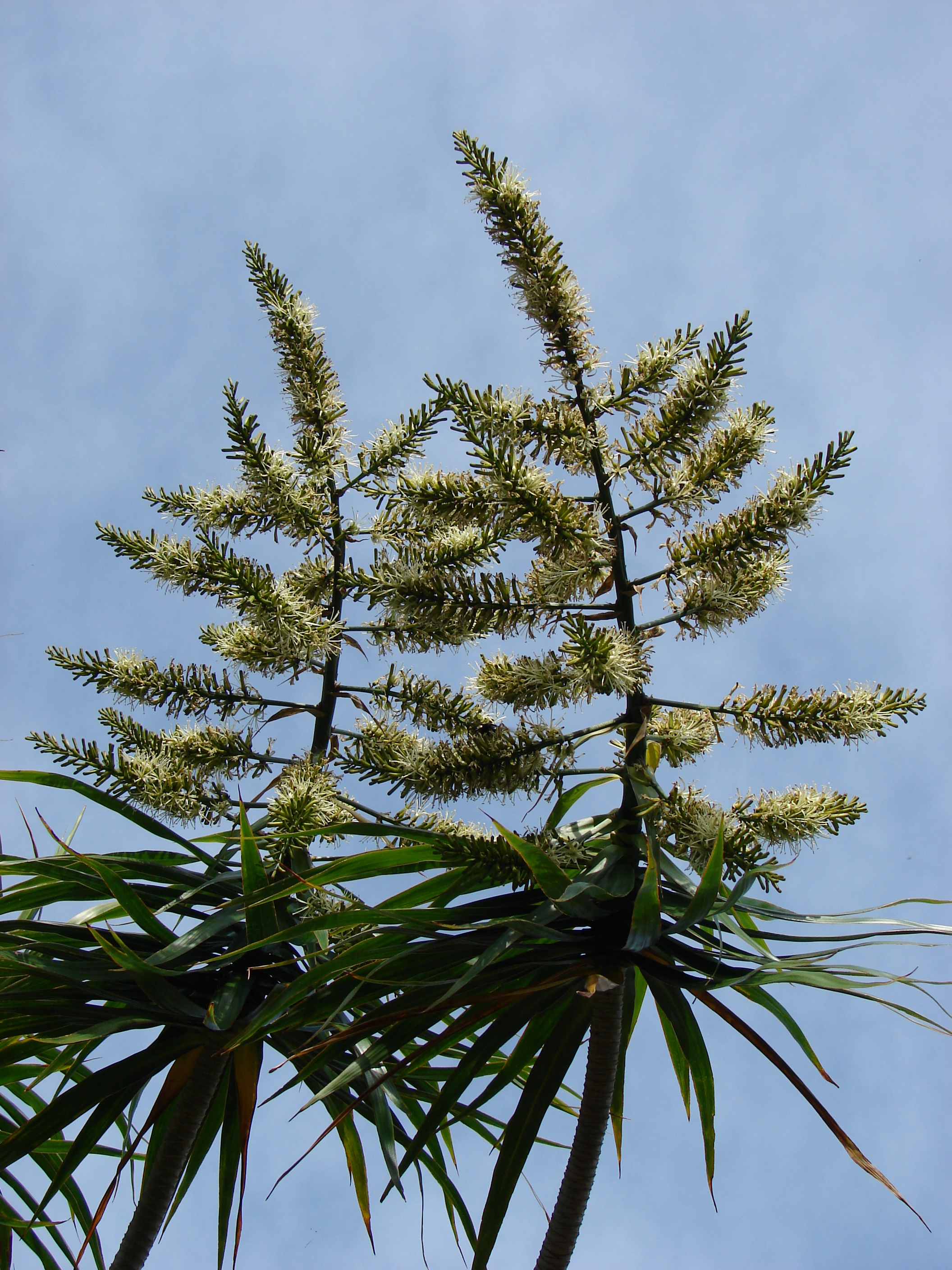 Dracaena marginata (flowers). Location: Maui, Makawao